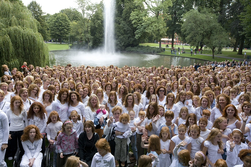 Redheadday photo 1. Thousends of genuine redheads come together once a year in Breda, the Netherlands. The Redheadday event consists of about 100 activities, like lectures, art expositions, workshops, all aimed at redheads. The event is a initiative of artist Bart Rouwenhorst.